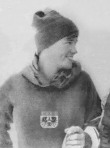 1962 Press Photo Linda Meyers, Christl Haas, Traudi Hecher at Swiss skiing